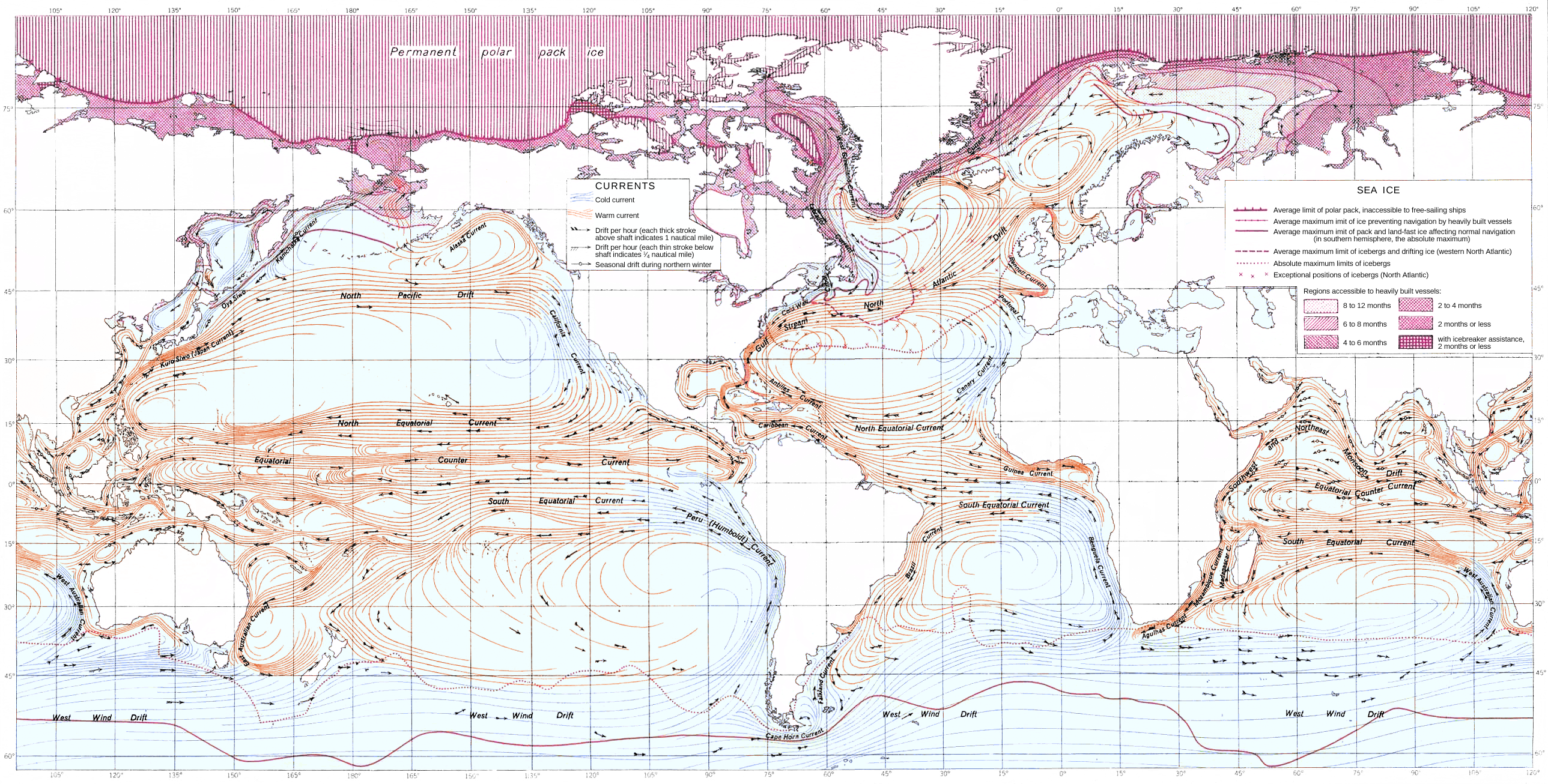 Re-colored (for readability by color blind persons) version of Ocean Currents and Sea Ice from Atlas of World Maps, United States Army Service Forces, Army Specialized Training Division. Army Service Forces Manual M-101 (1943).